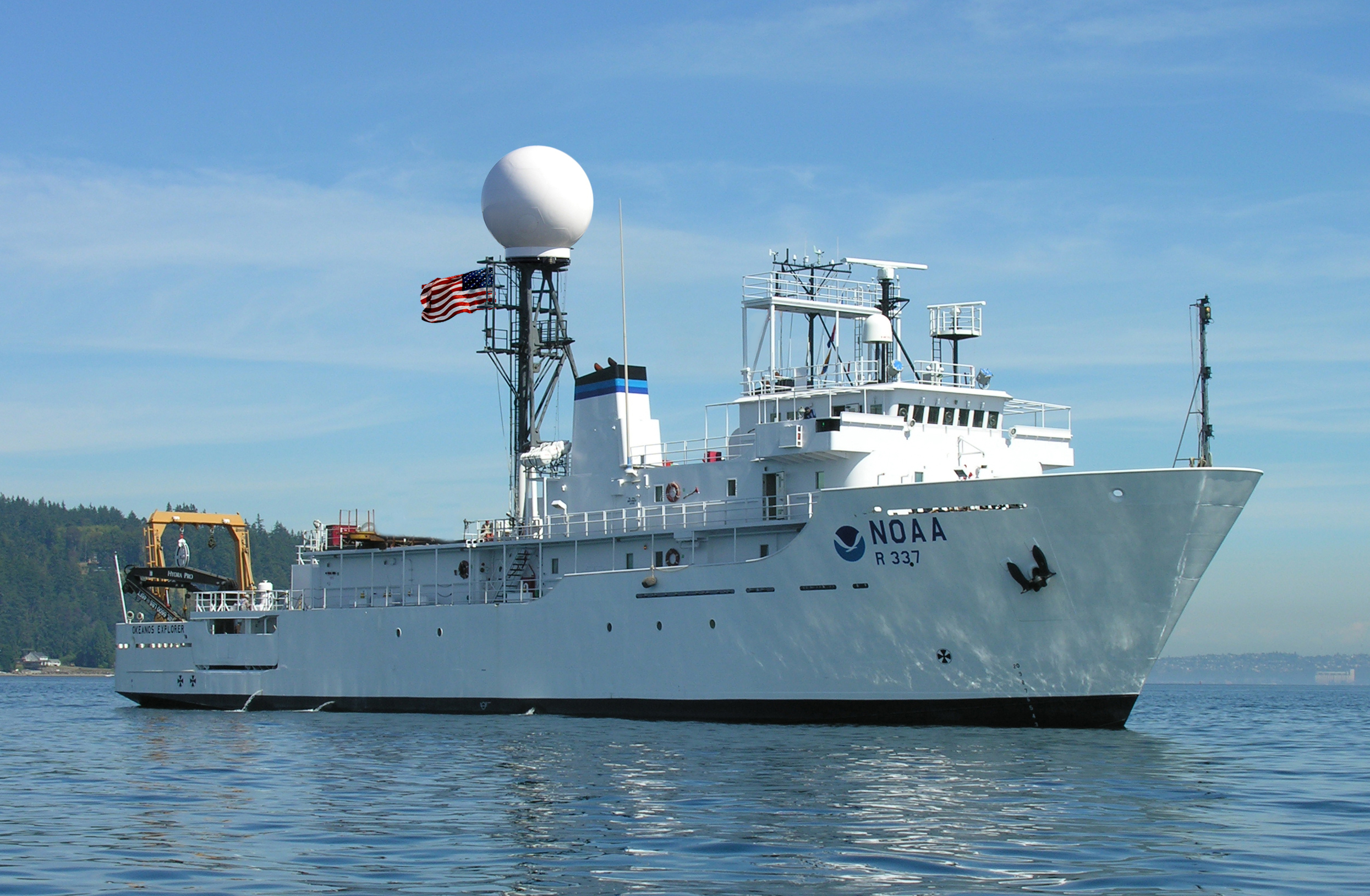 NOAA R/V Okeanos Explorer. Full story